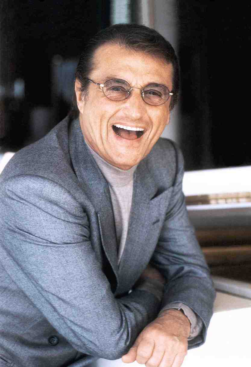 Transfer from Wikipedia, image in the public domain as per respective entry